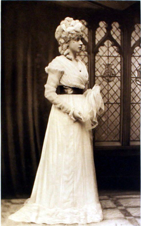 Lady Edith Villiers dressed as Lady Melbourne for a party in 2 July 1897 at Duchess of Devonshires